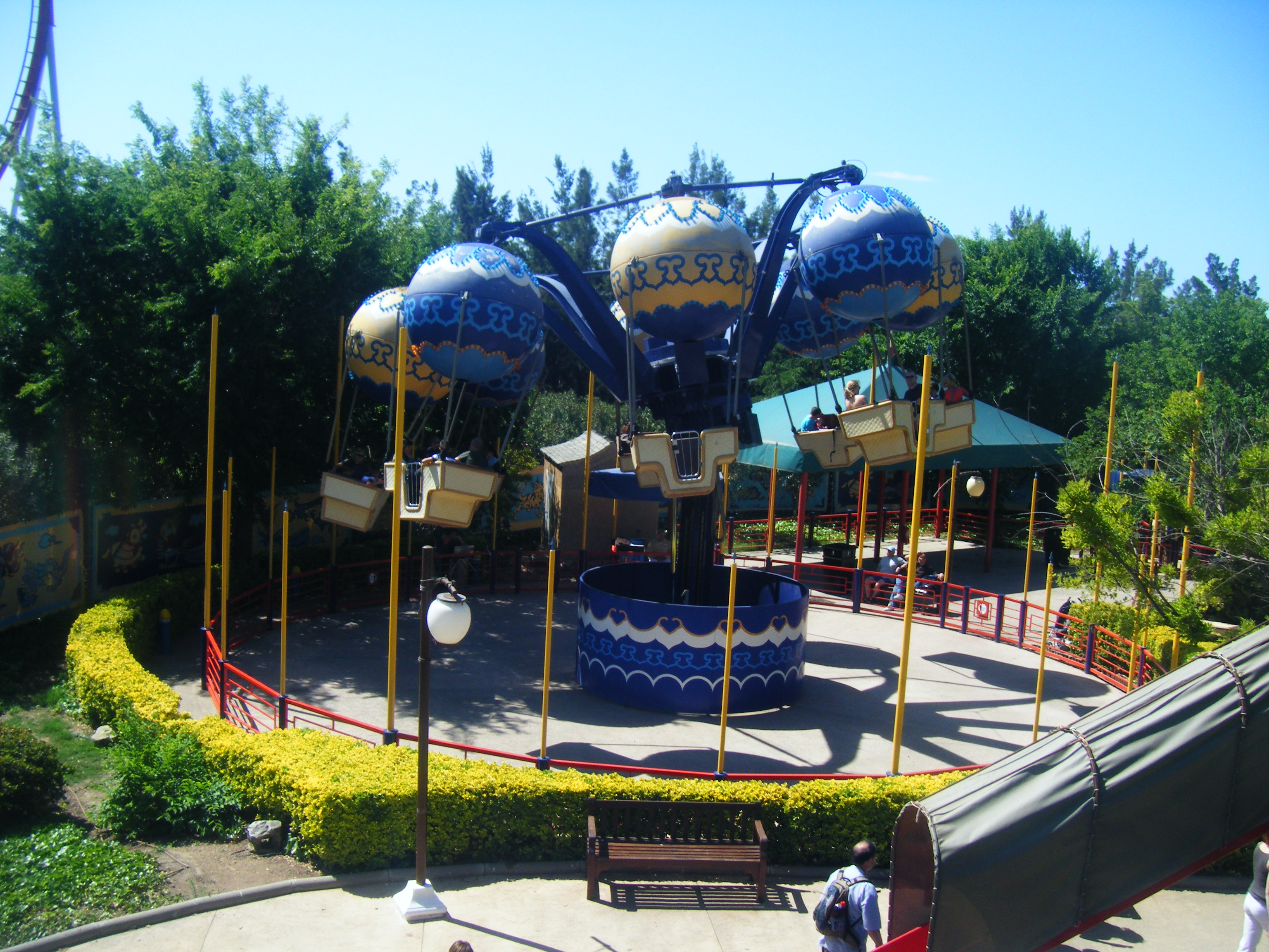 Kids Playground in Salou's Port Aventura Theme Park.